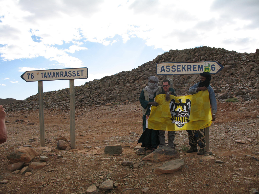 Taken in October 2007. A Phoenix fan taking his message to the Algerian Sahara.